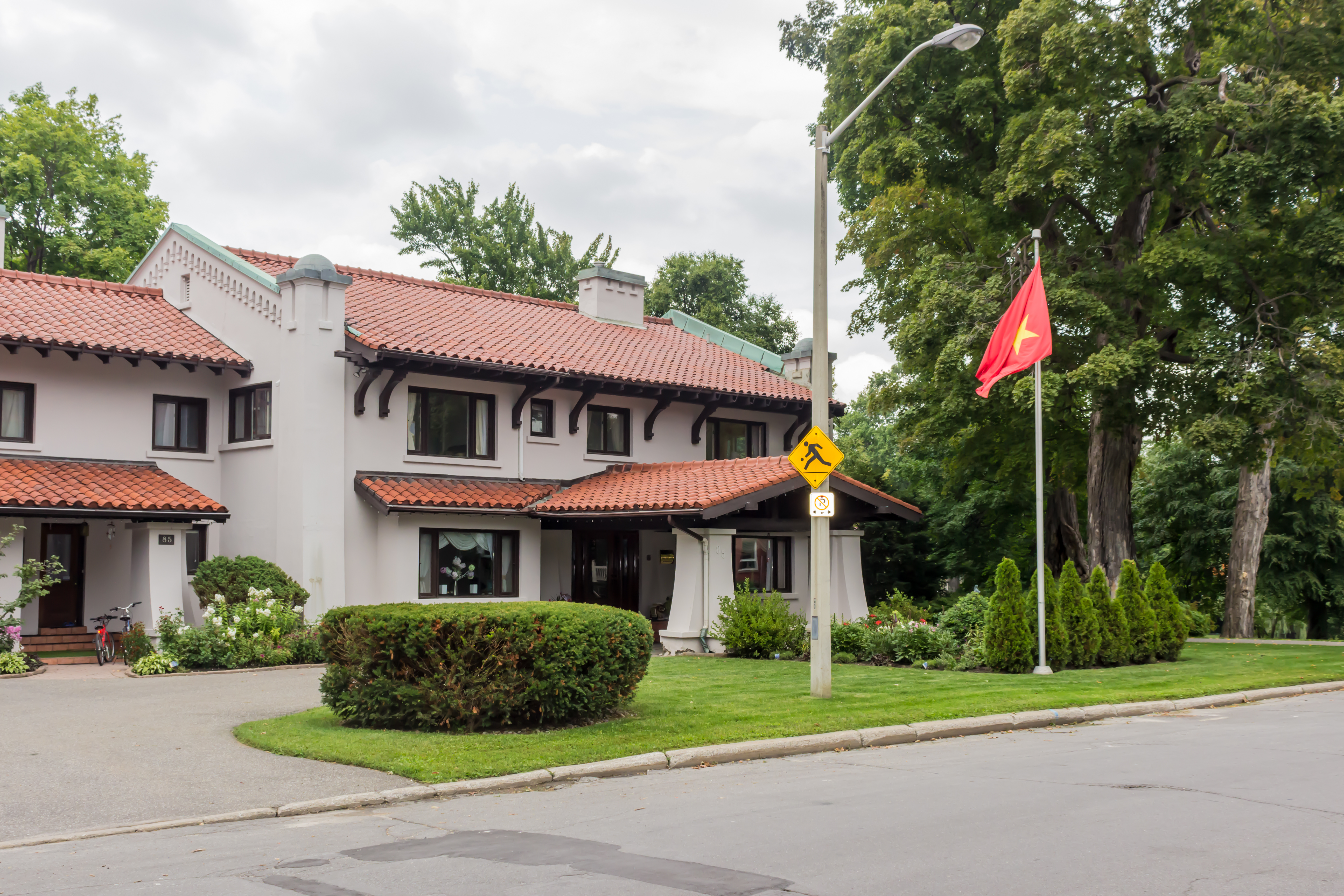 Residence of the Vietnamese ambassador to Canada in Ottawa